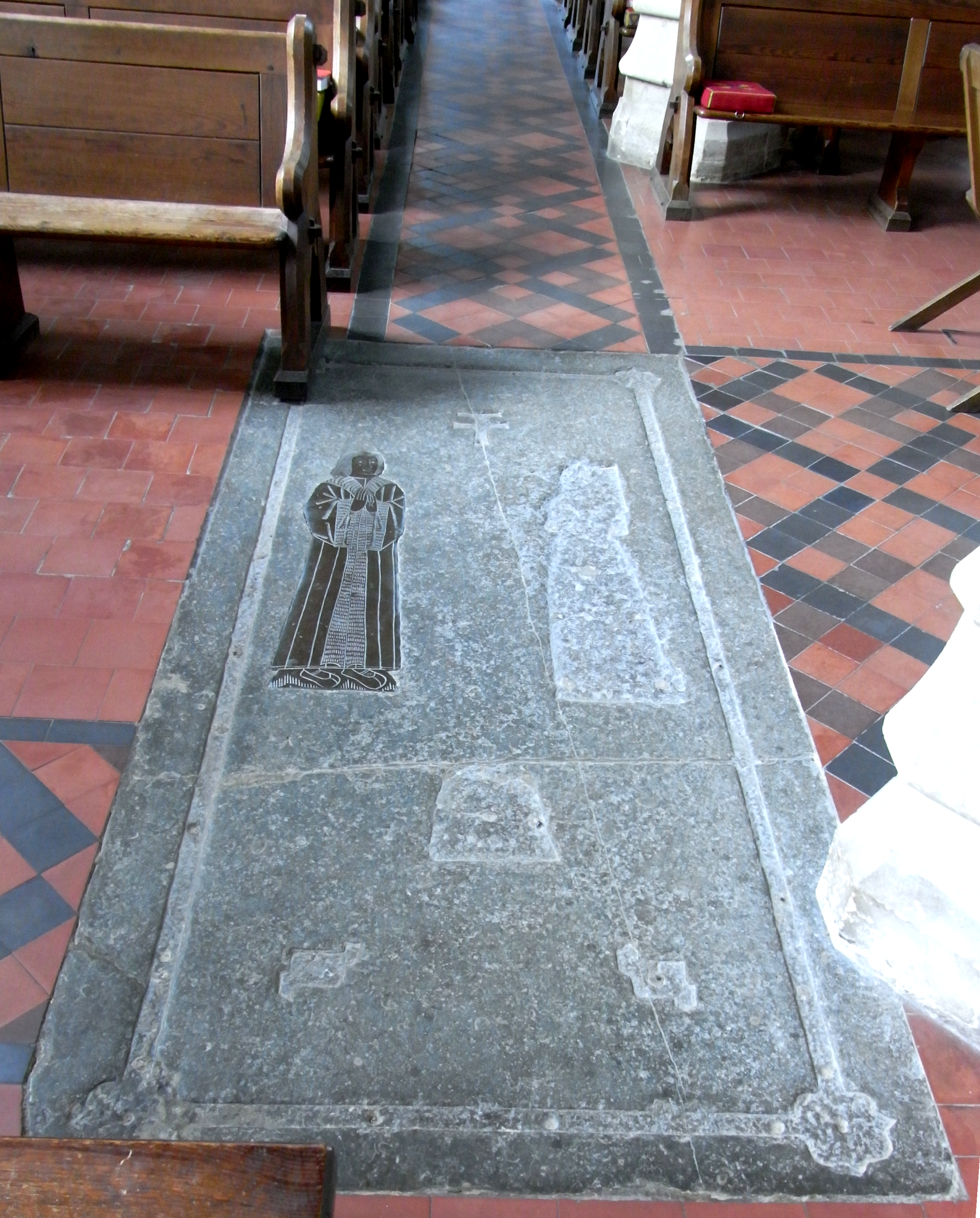 Ledger stone of John Twynyho (d.1485), Lechlade Church, Gloucestershire, England.